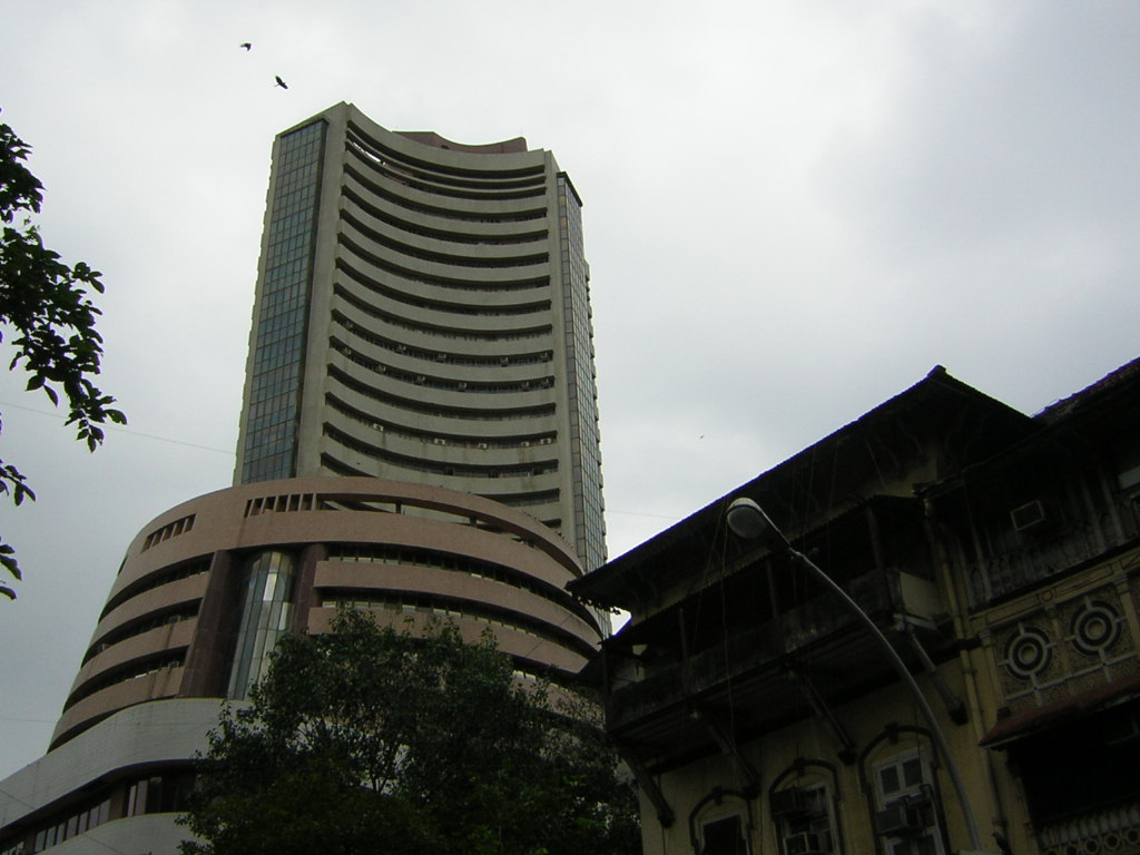 BSE, Dalal Street